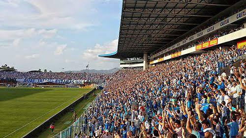 Torcida do Avaí. Ressacada lotada em 2013